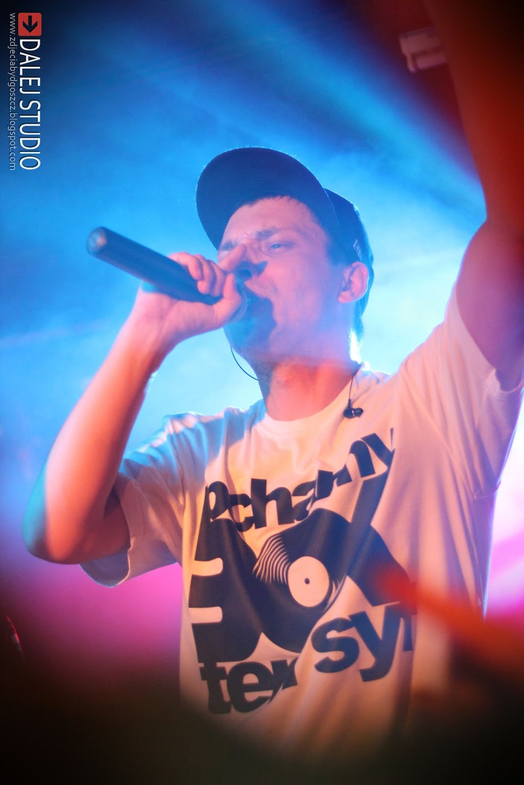 Bisz of B.O.K, 2012